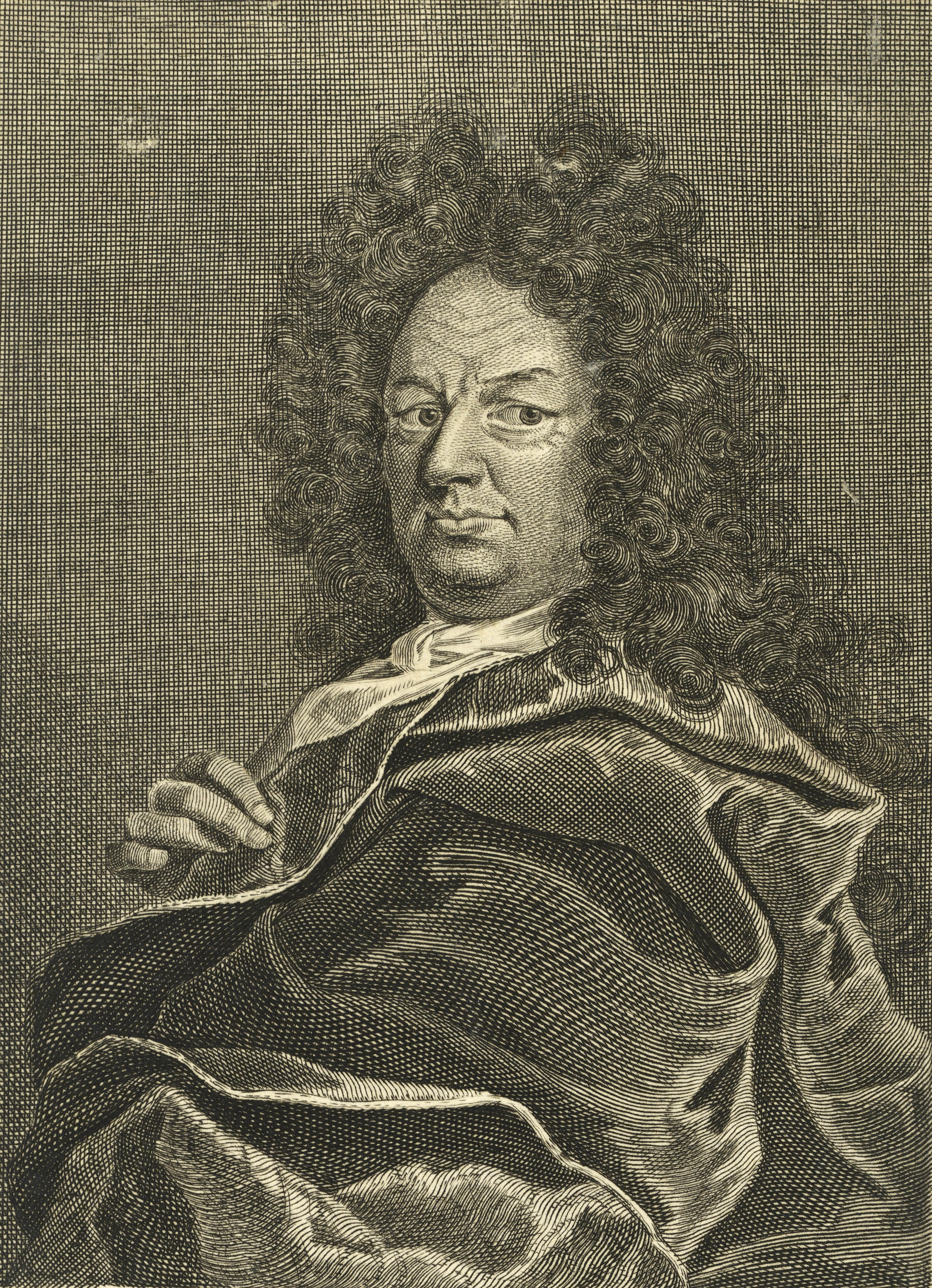 Count Carl Piper (1647–1716) by Martin Bernigeroth.